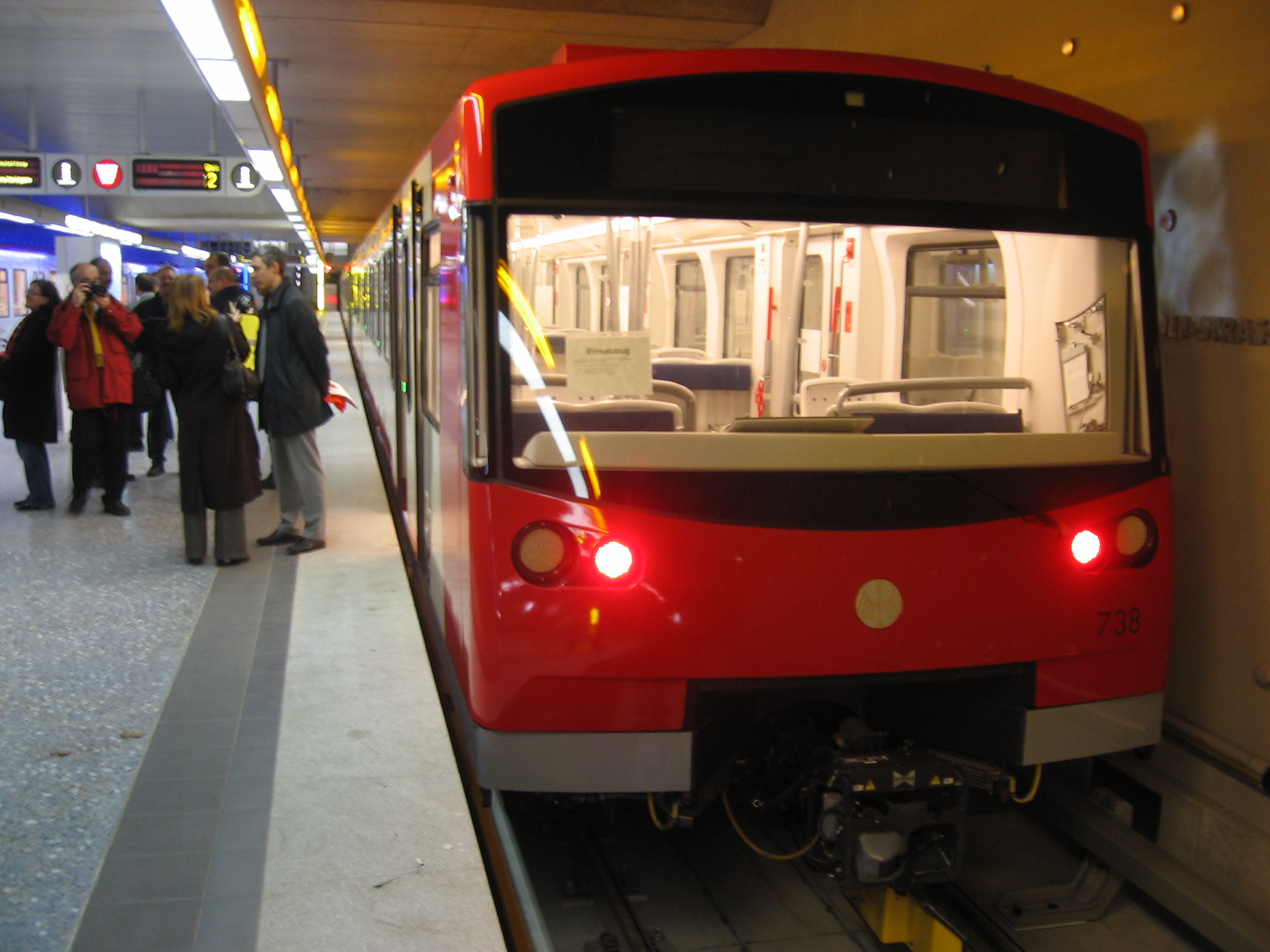 Image of a DT3 of Nuremberg U-Bahn (Nuremberg, Germany) at station Gustav-Adolf-Straße